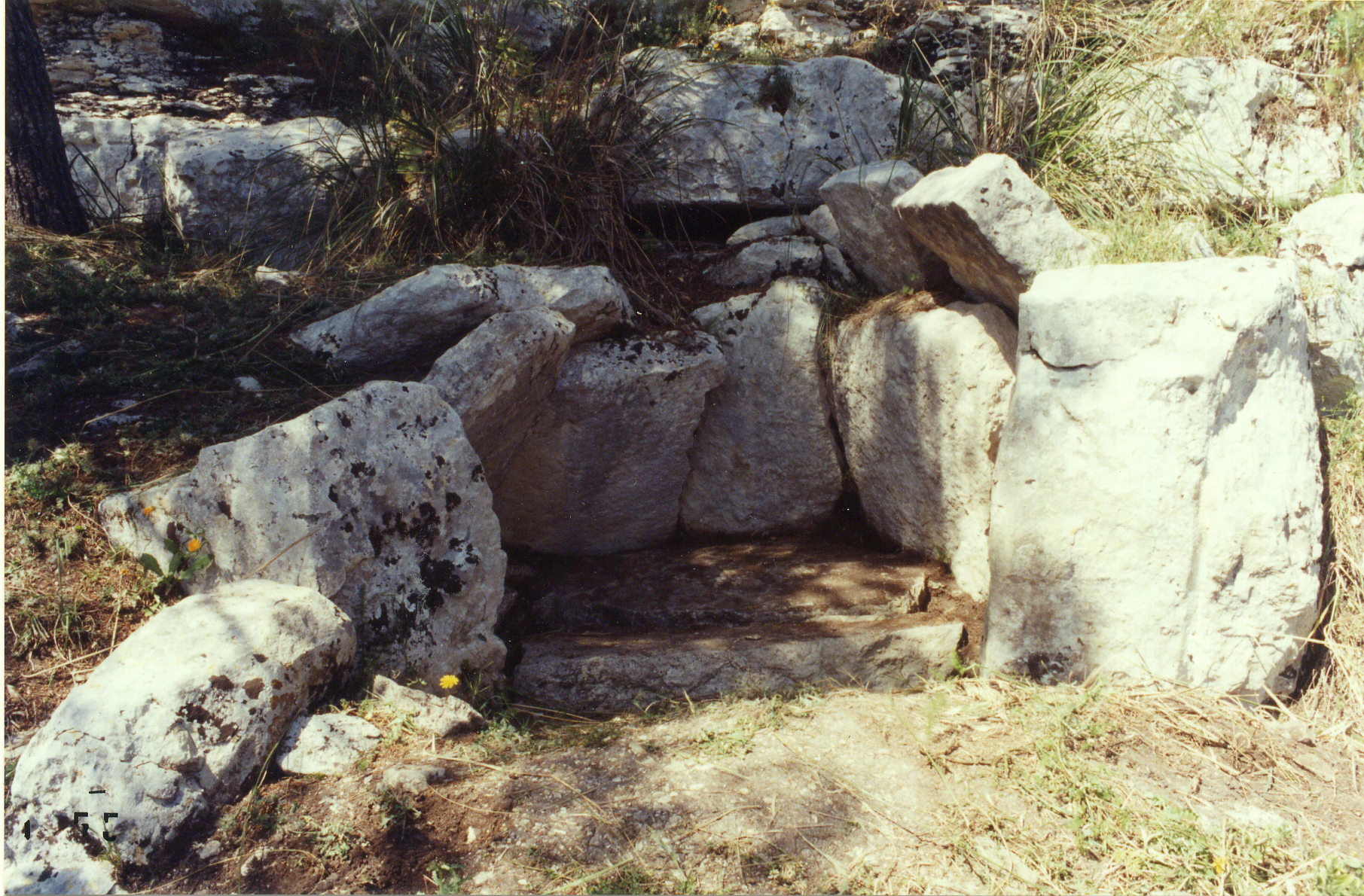 Semi oval prehistoric monument formed by rectangular slabs fixed into the ground